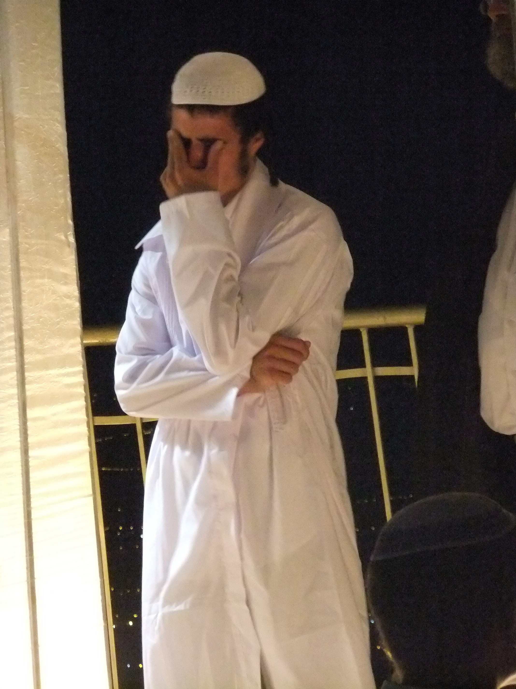 The groom wearing a Kittel at his wedding